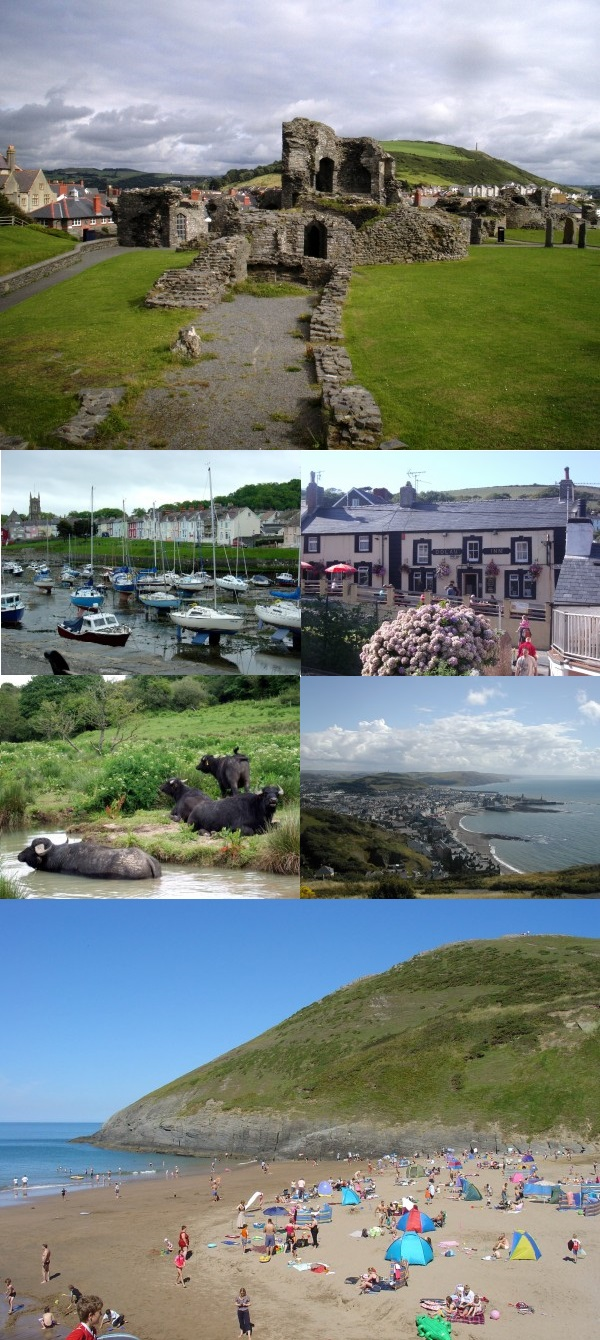 Photo montage of the county of Ceredigion, Wales